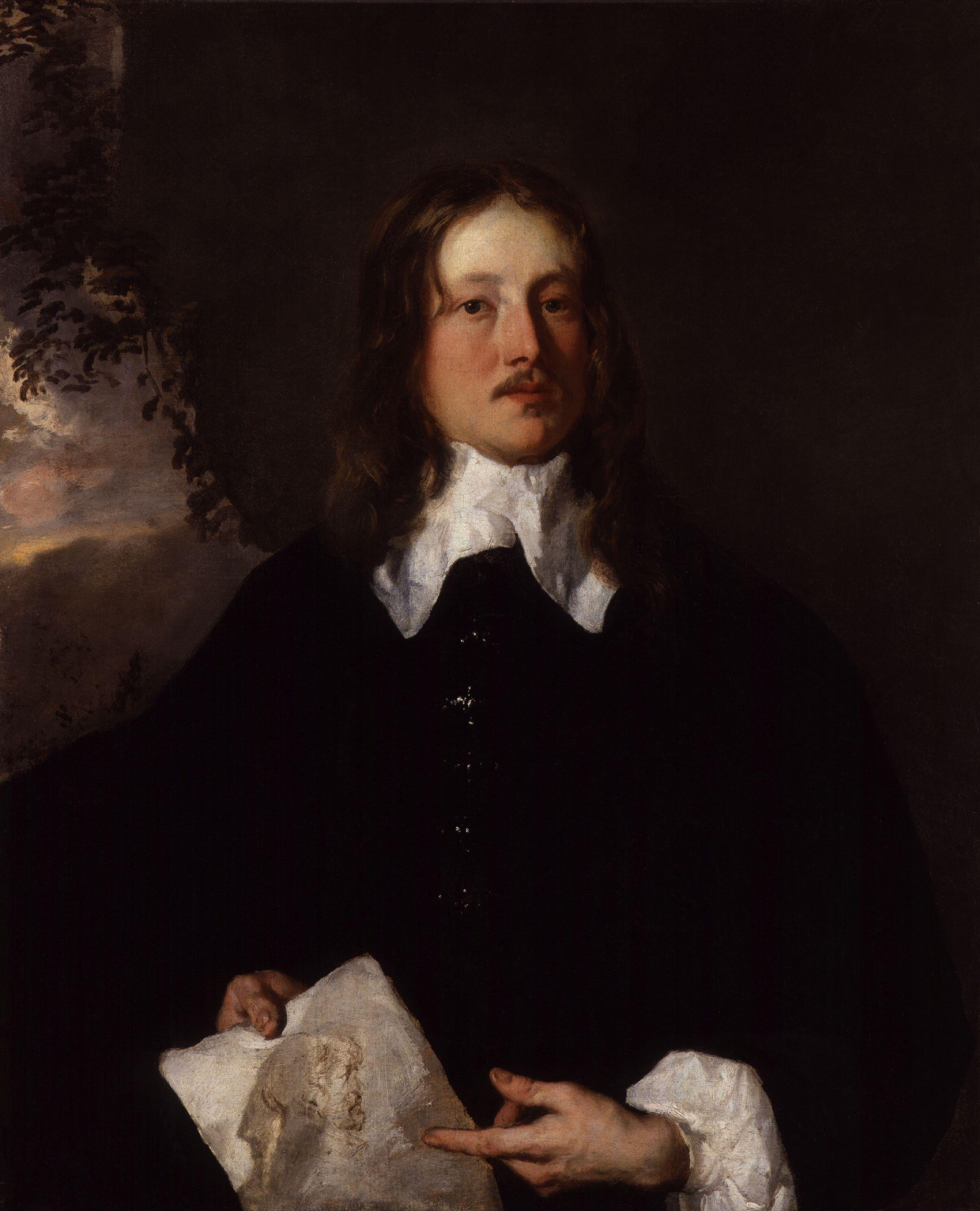 Henry Stone